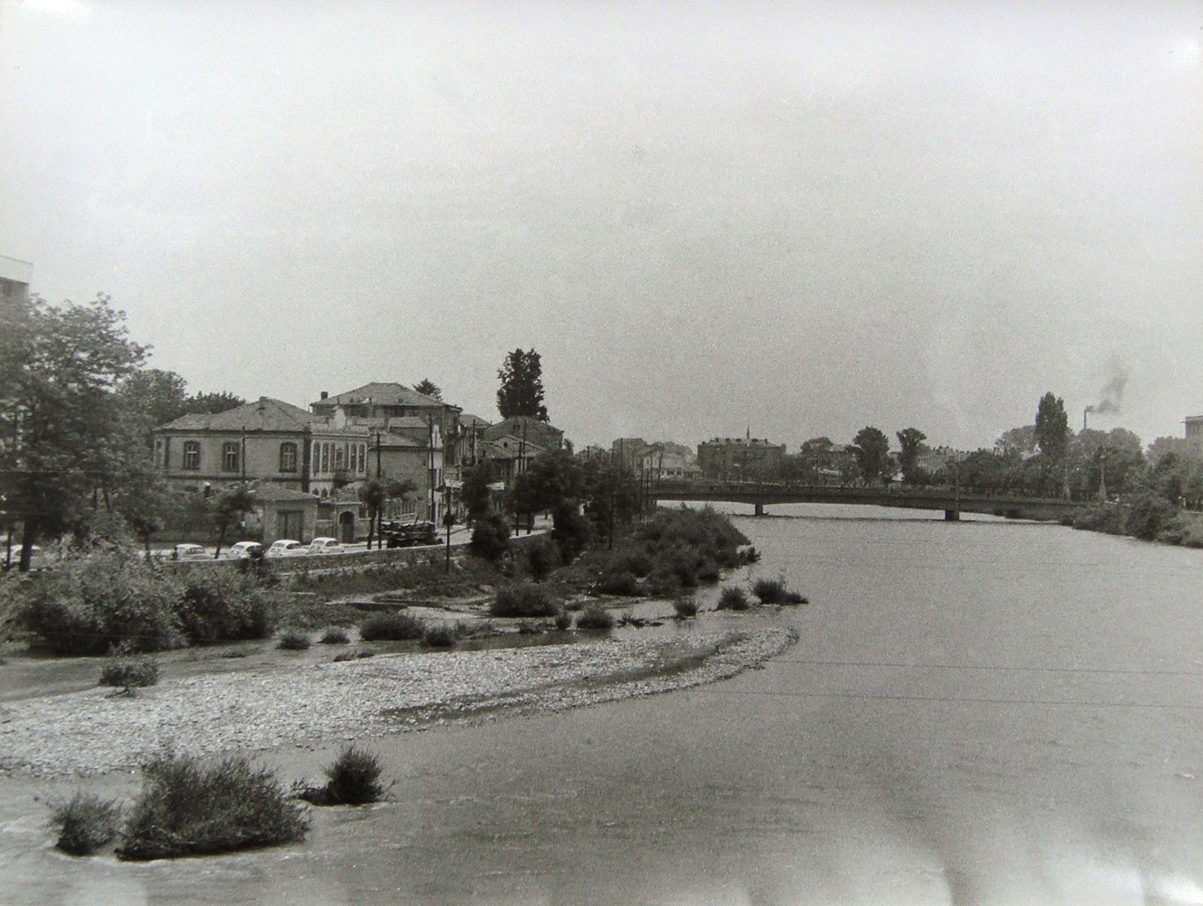 Skopje Diocese,photo taken before 1962 This media file is produced by Wikipedian in Residence in Category:Wikipedian in Residence at DARM in 2016.